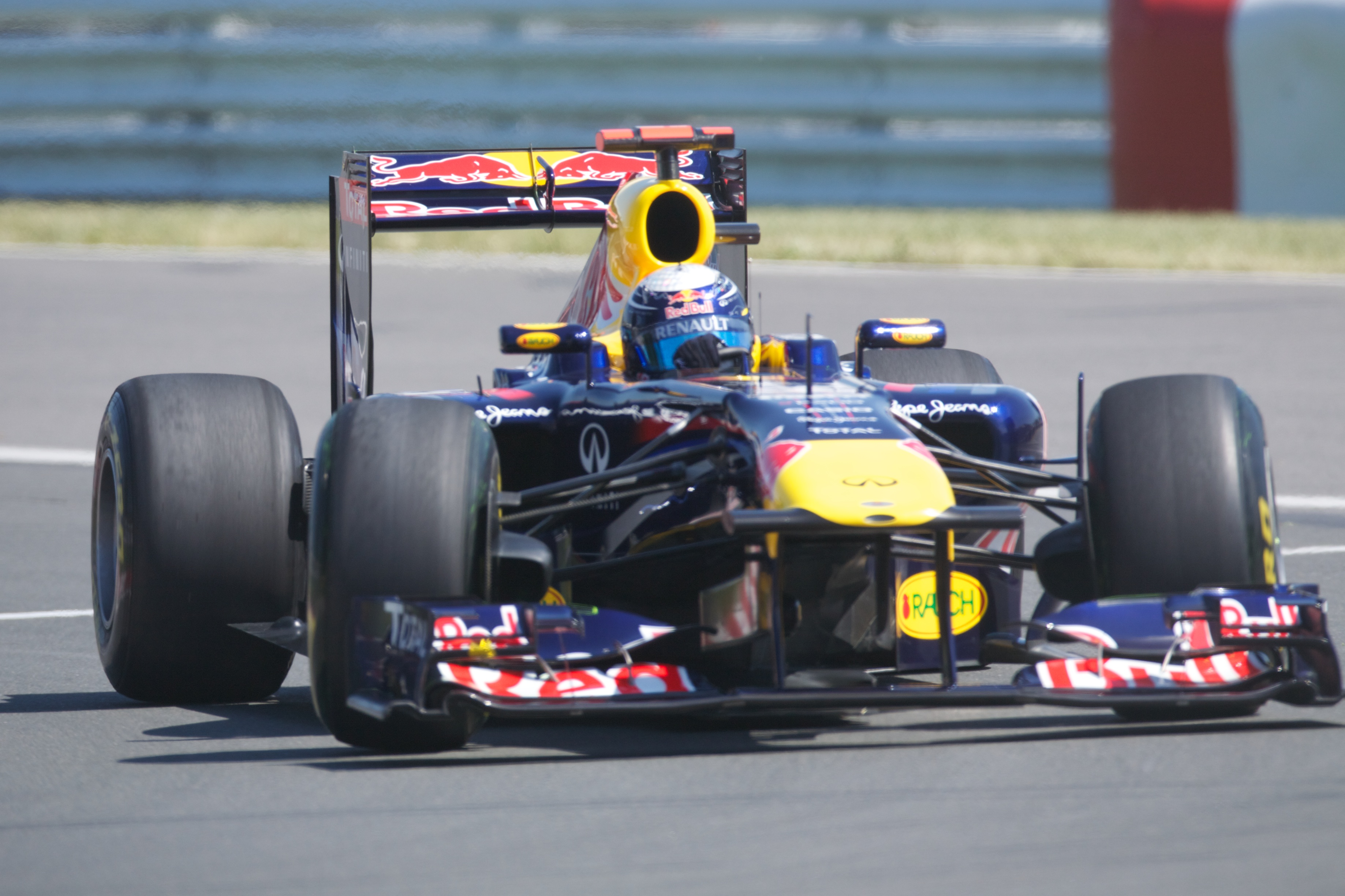 2011 Canadian Grand Prix